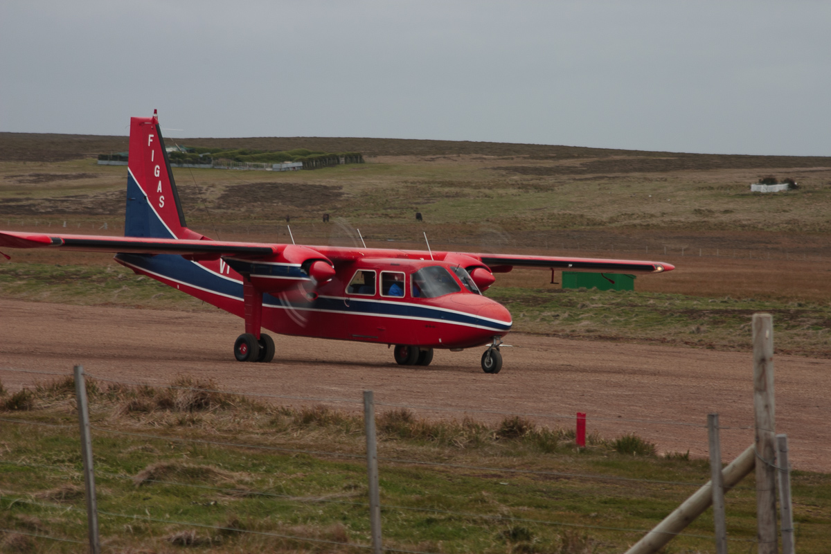 FIGAS plane on the airstrip at Sea Lion Island.